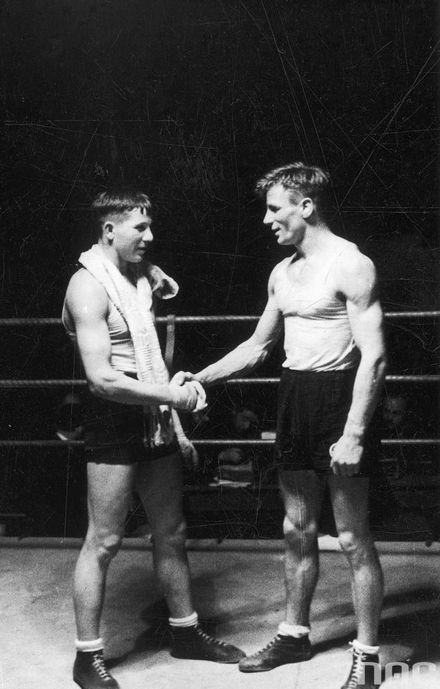 Adam Seweryniak (left)